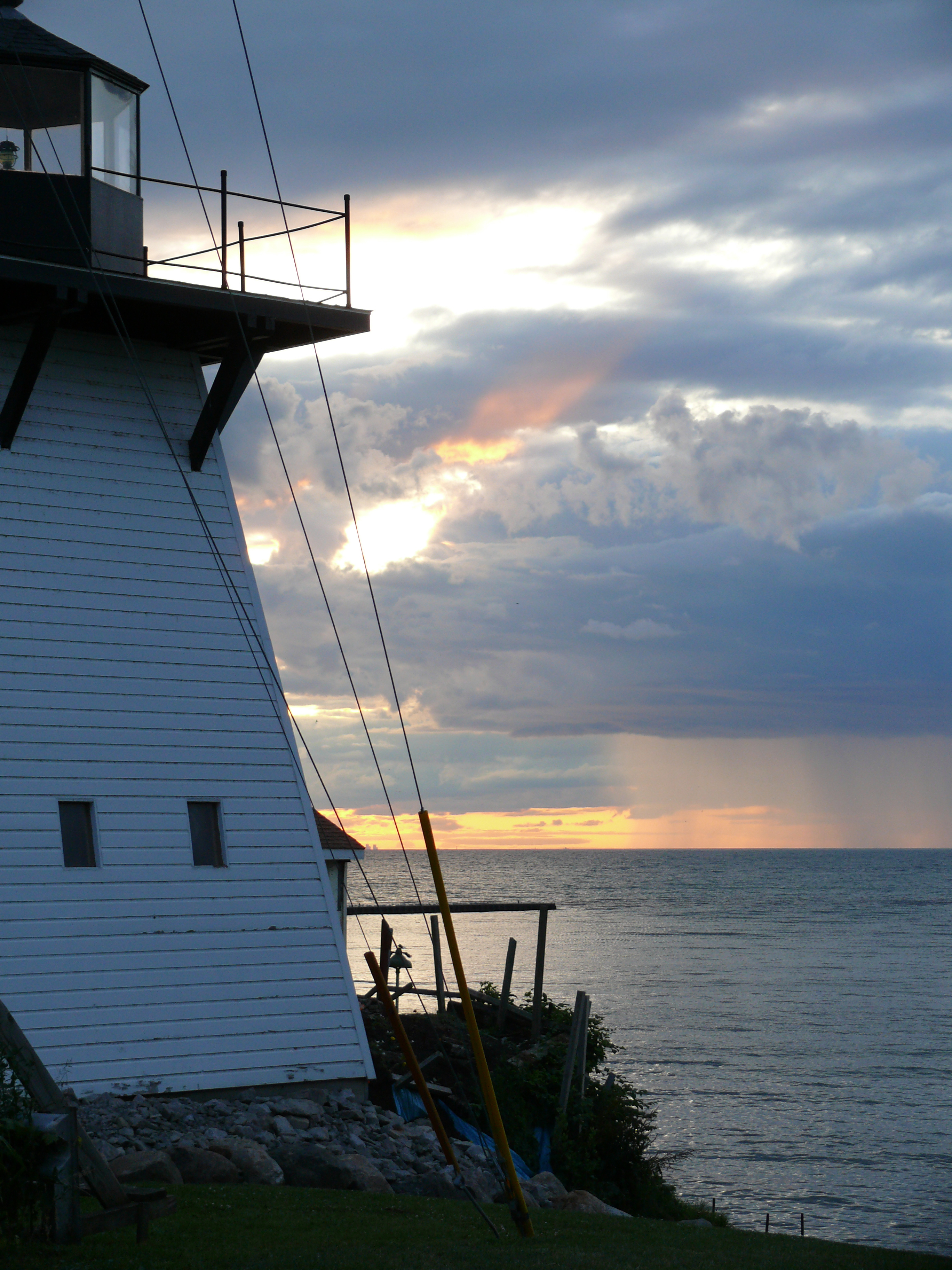 Olcott is a hamlet (and census-designated place) located in the Town of Newfane in Niagara County, New York, United States 14126. Most locals refer to it as Olcott Beach. It is a lakeside community which is home to the deepest harbor on Lake Ontario west of Rochester, NY. Olcott Light was built on a pier in Olcott, New York at Eighteen Mile Creek, named for being eighteen miles from the Niagara River. The light was no longer needed in the 1930s, and was moved to a local yacht club, where it resided until the early 1960s when it was destroyed. In the summer of 2003, a replica was built from old photographs. In the background gushing rain over lake Ontario can be seen.